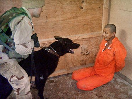 Photo of prisoner abuse at the Abu Ghraib prison, Irak. United States Sgt. Michael J. Smith, the dog handler, was found guilty on six of 13 counts of abusing prisoners at Abu Ghraib. U.S. Army / Criminal Investigation Command (CID). Seized by the U.S. Government.